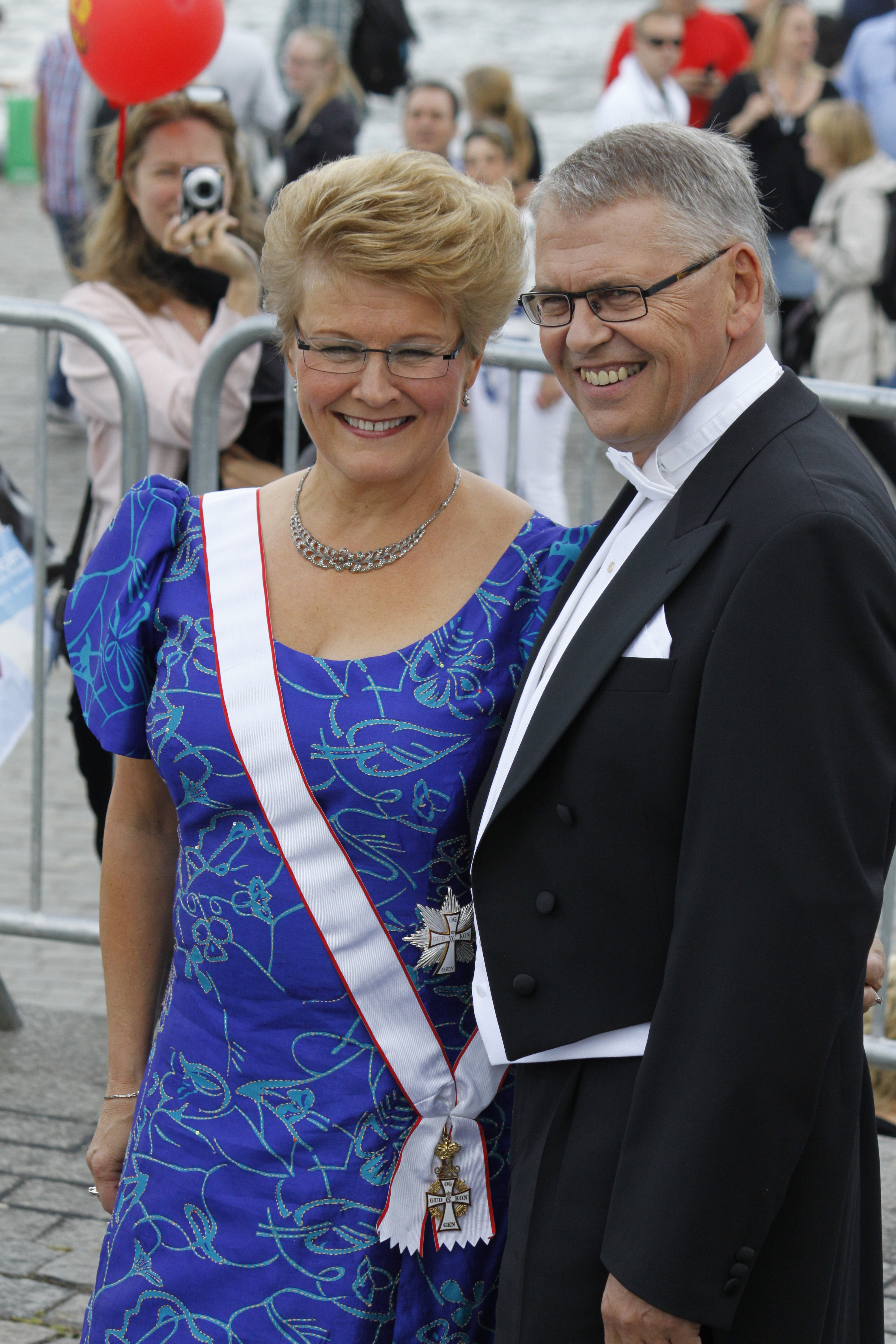 Maud Olofsson, Deputy Prime Minister of Sweden